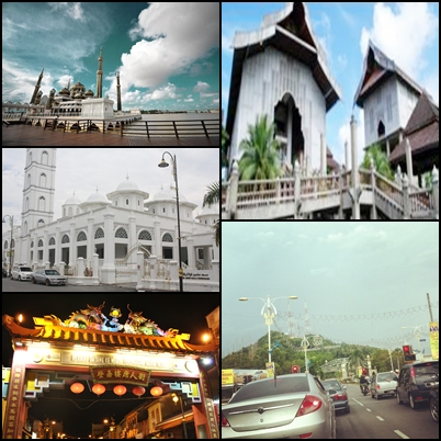 A composite image of icons of Kuala Terengganu from these images.